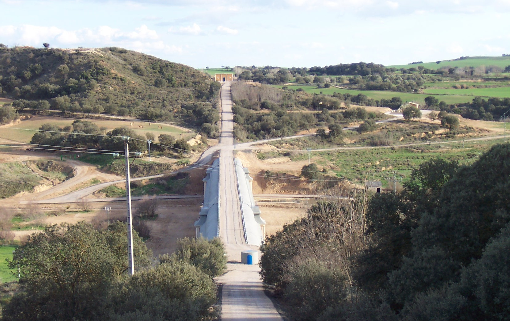 Sifón del Sosa